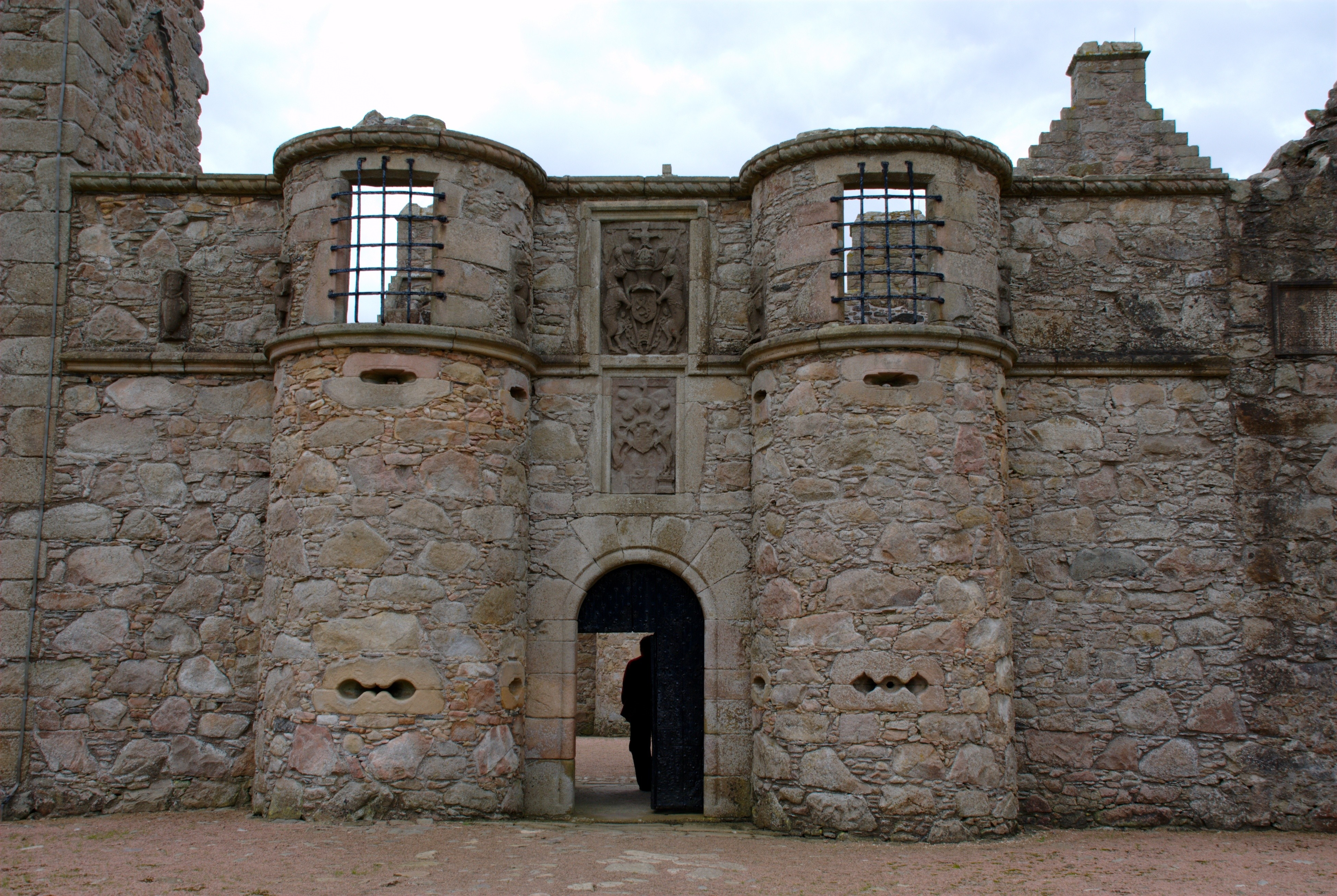 Tolquhon Castle entrance, showing detail of the unusual firing slits